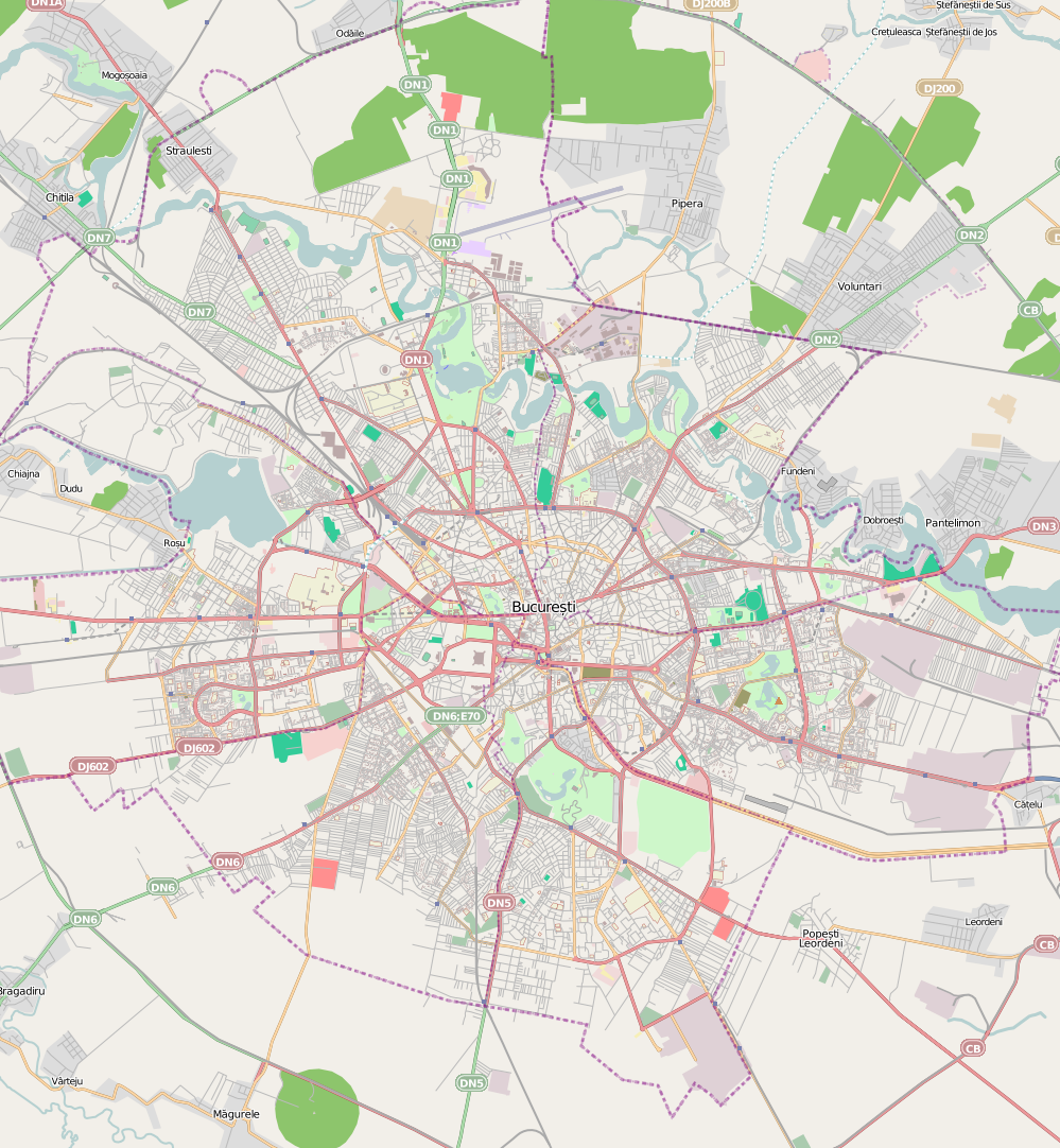 This map may be incomplete, and may contain errors. Don't rely solely on it for navigation.